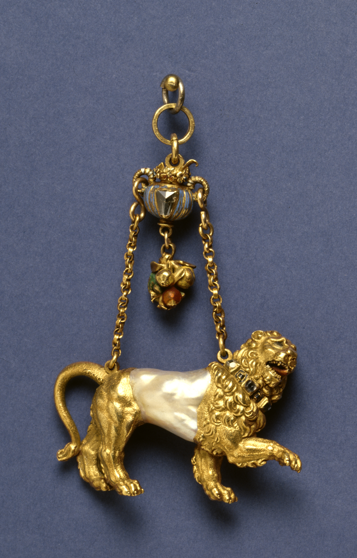 This pendant was designed around the voluptuous but irregular shape of a baroque pearl which forms part of the body of the lion. This kind of light, amusing, showy pendant was apparently meant to be worn at events such as weddings. Its charm depends on its design rather than on a massing of precious stones. This type of design is associated with the late 16th-century Southern Netherlands jewelry designer Hans Collaert.